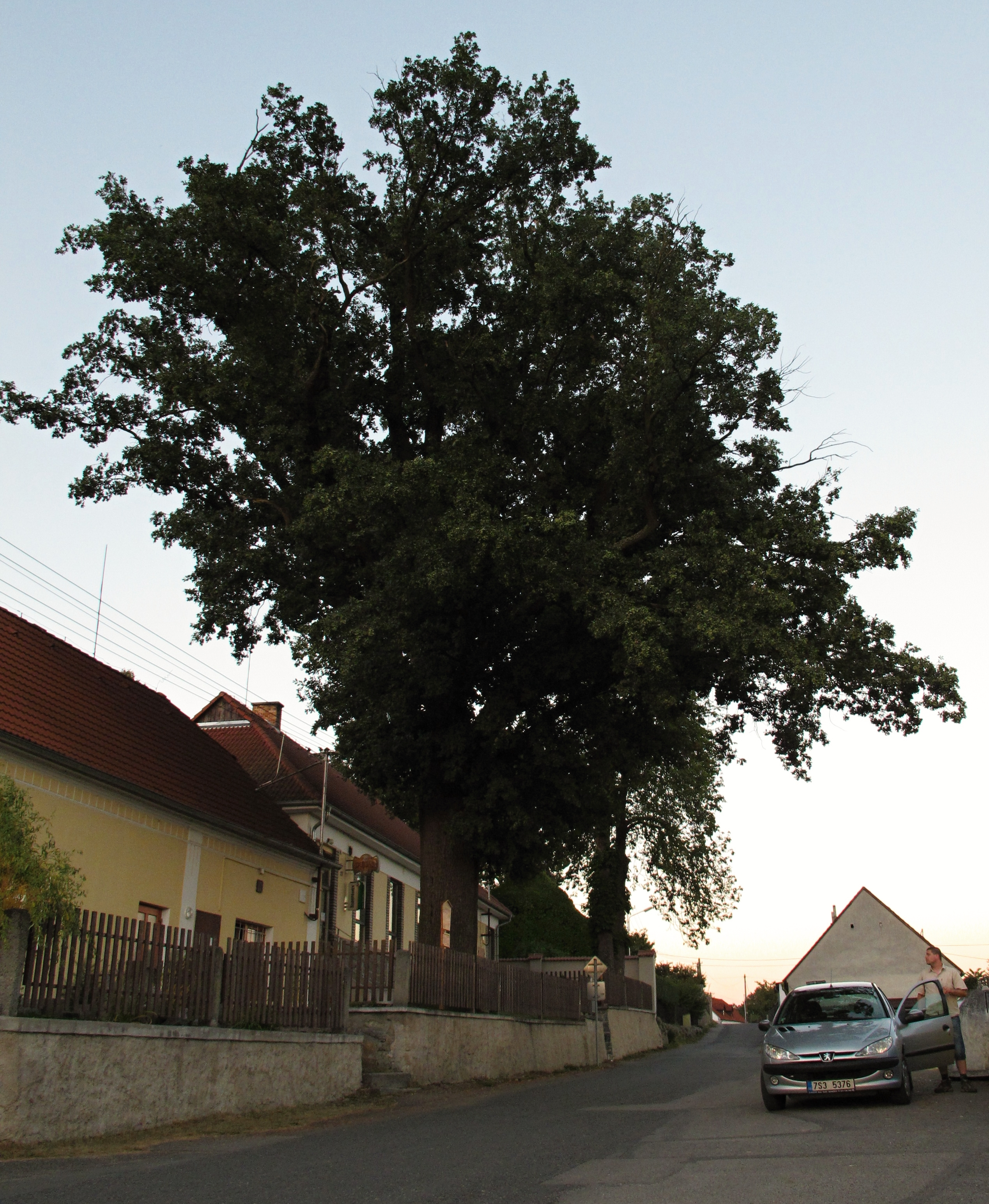 Famous tree - oak in Bezdědovice near Blatná, Strakonice District (Czech republic)